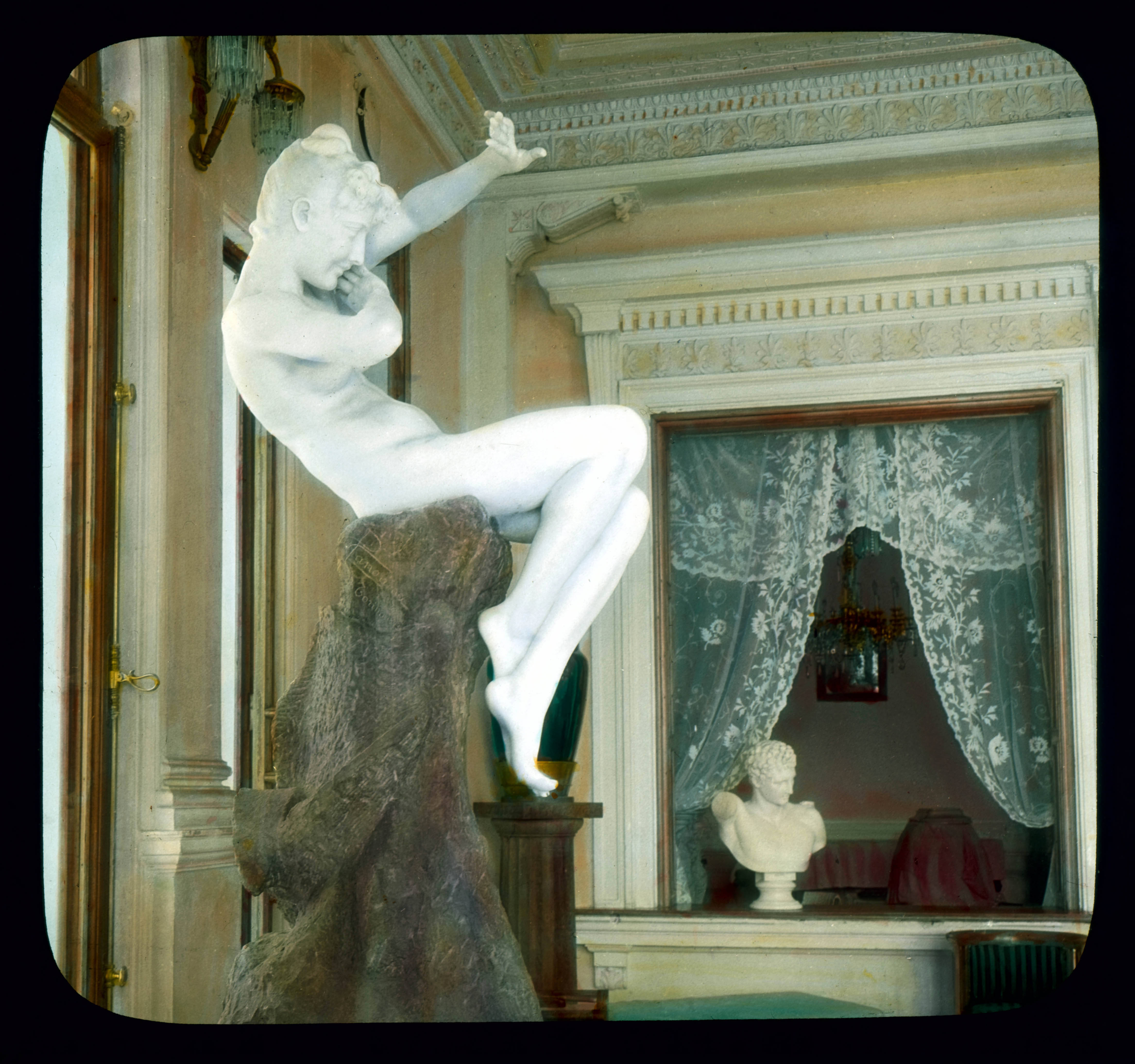 Saint Petersburg. Yelagin Palace interior of palace, with marble sculpture